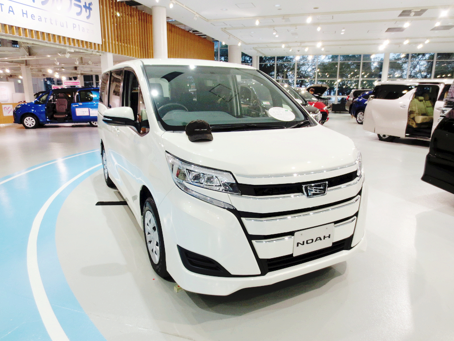 Toyota Noah